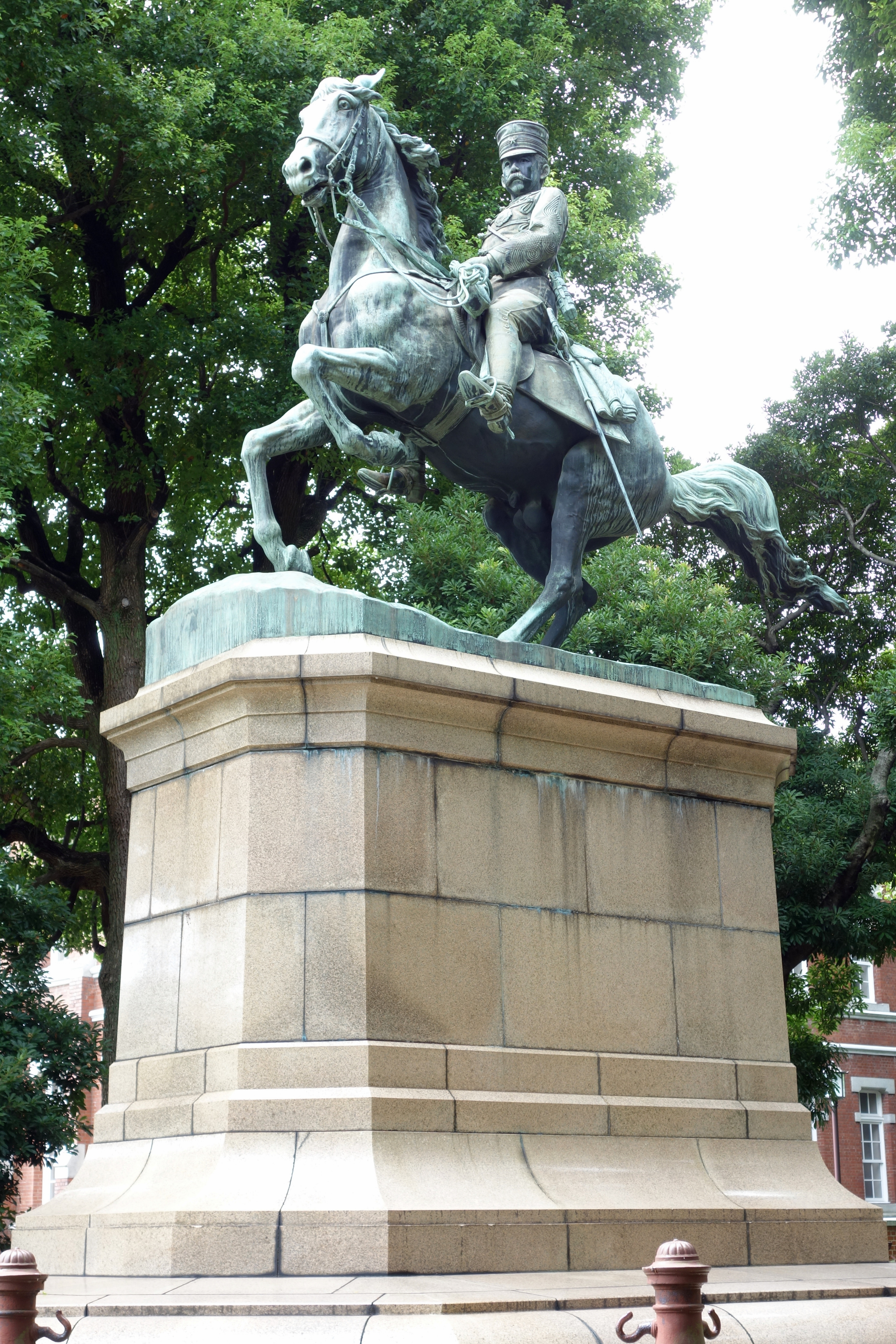 Prince Kitashirakawa Yoshihisa memorial - Kitanomaru Park, Tokyo, Japan.